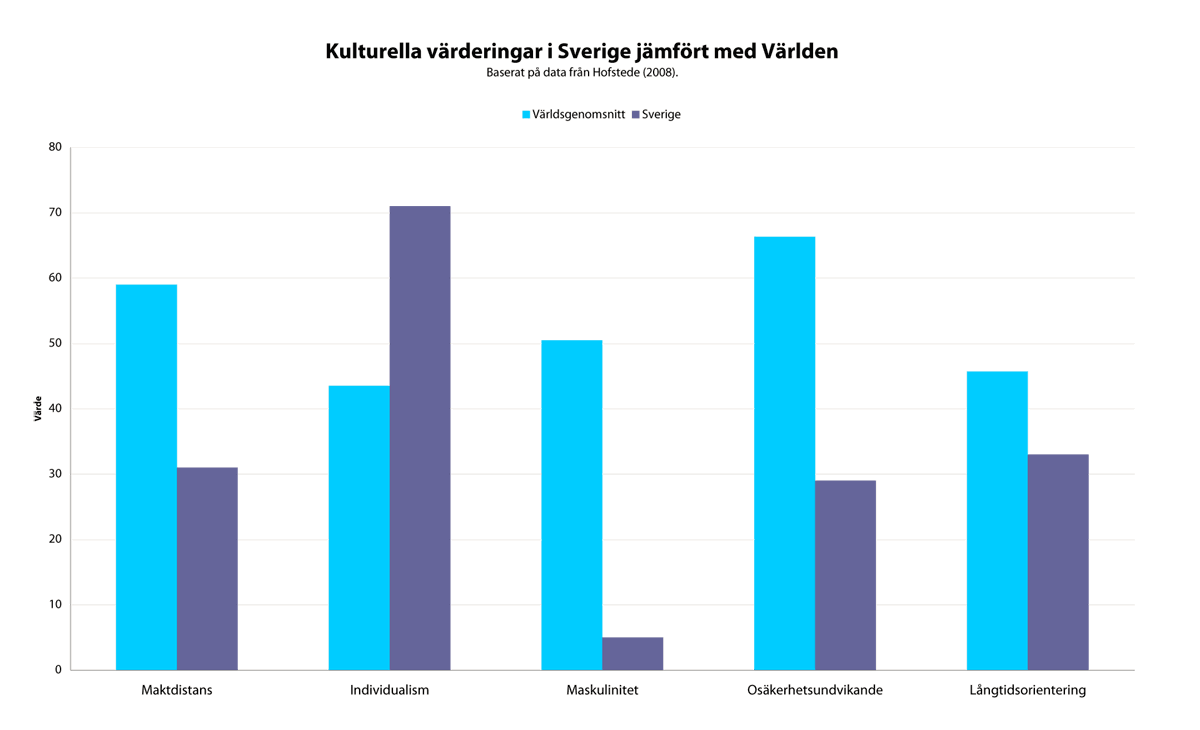 Comparison of cultural values between Sweden and World averages, based on Hofstede's five cultural dimensions, in Swedish